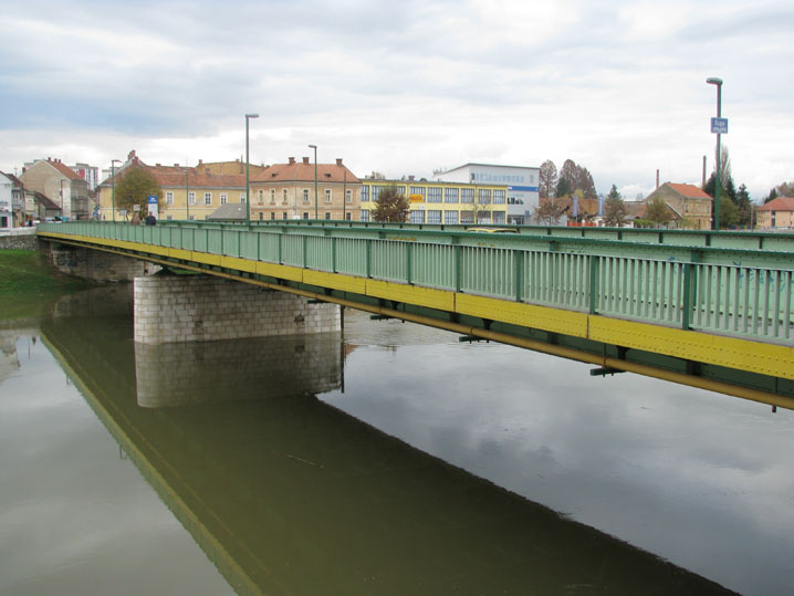 Bridge over Kupa in Karlovac, Croatia